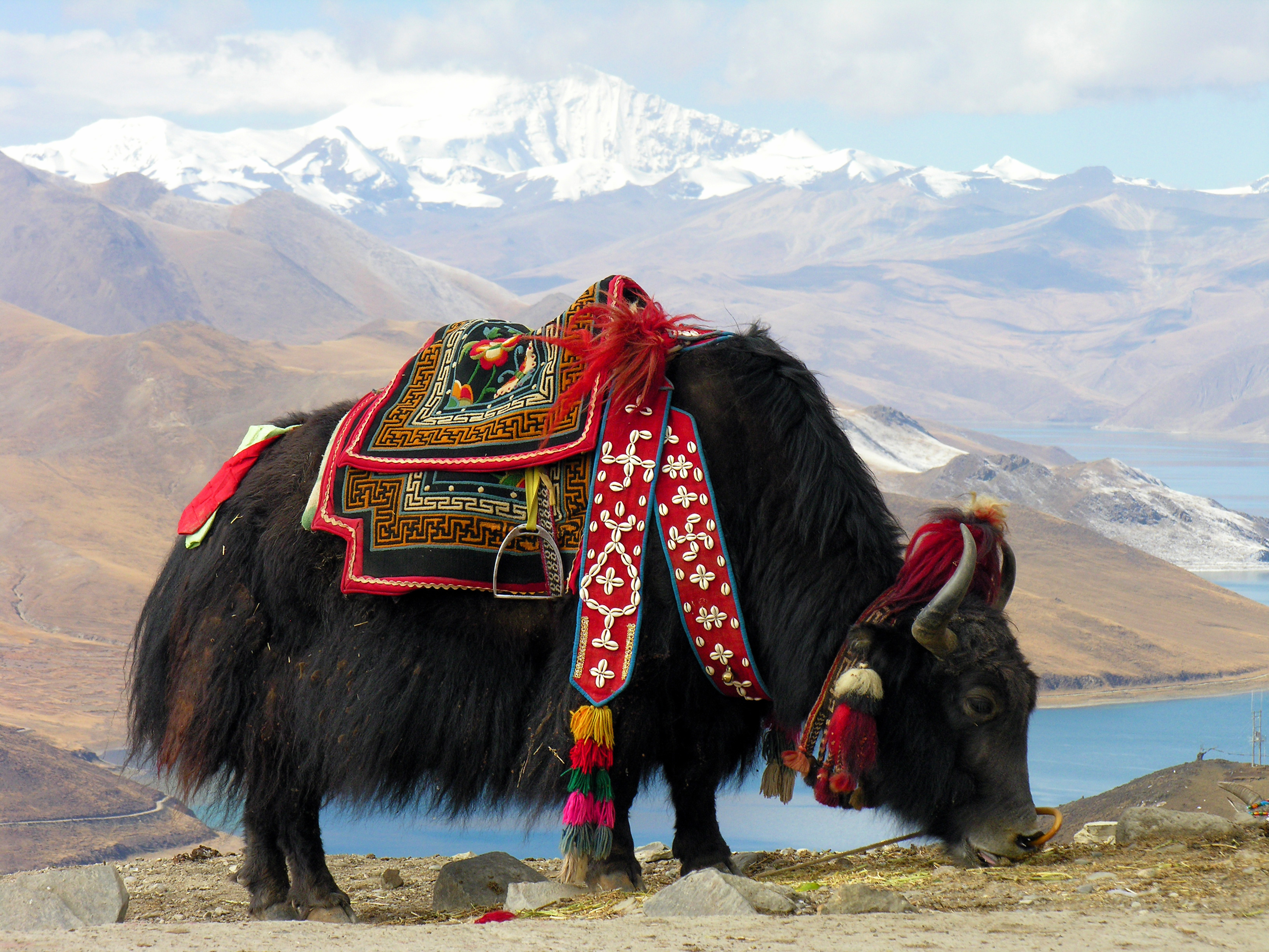 Yak near Yamdrok lake, Tibet. It is a long-haired bovinae found throughout the Himalayan region of south Central Asia, the Tibetan Plateau and as far north as Mongolia and Russia. The Tibetan economy is dominated by subsistence agriculture. Due to limited arable land, the primary occupation of the Tibetan Plateau is raising livestock, such as sheep, cattle, goats, camels, yaks, dzo, and horses. The Tibetan yak is an integral part of Tibetan life. (Used in a small exhibition in Stockholm, at the World Water Week, raising awareness about climate change in the Himalayas. Original title was: "Tibet-5812")